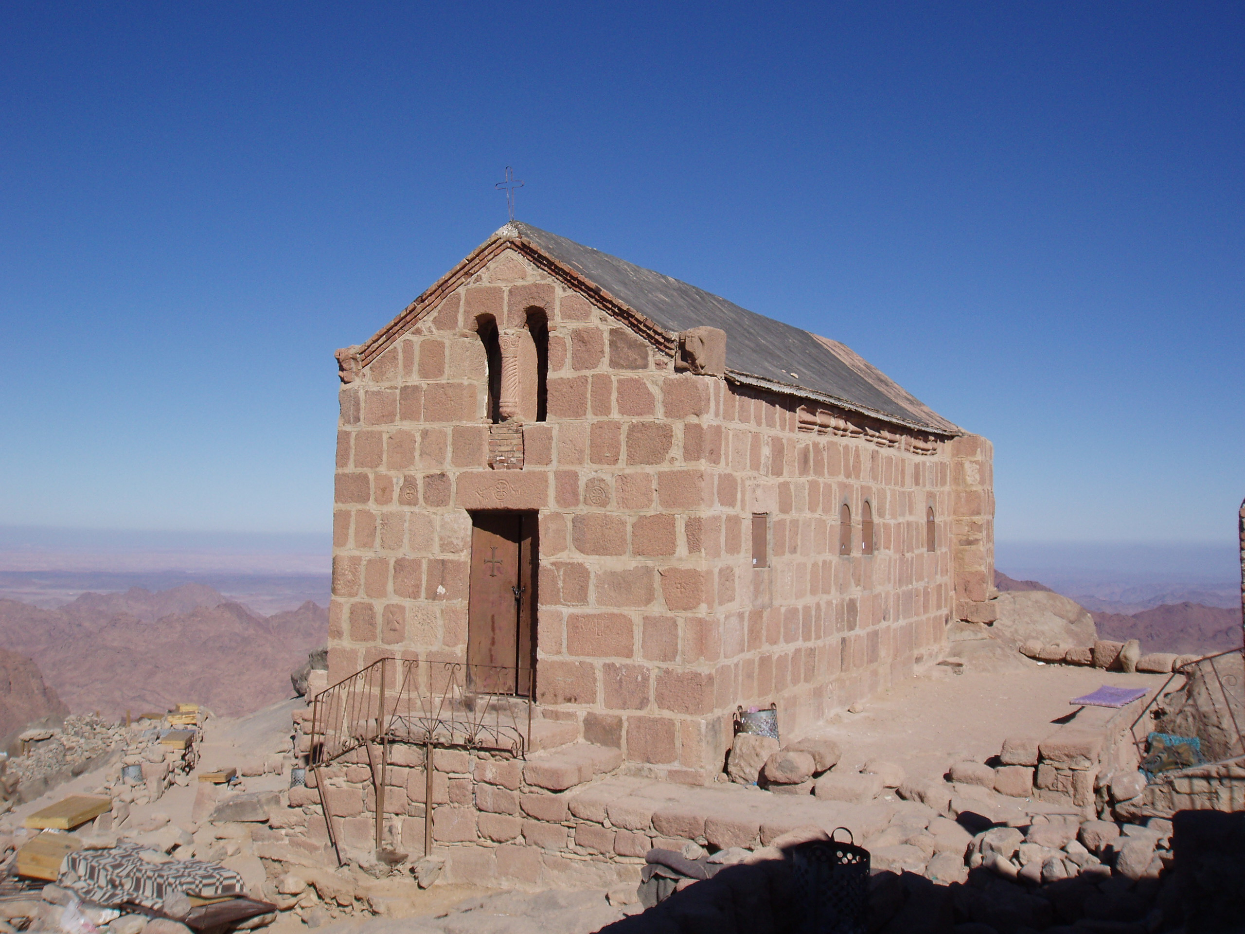 Author: Myself Source: My camera URL: None Fair use: It is my own image